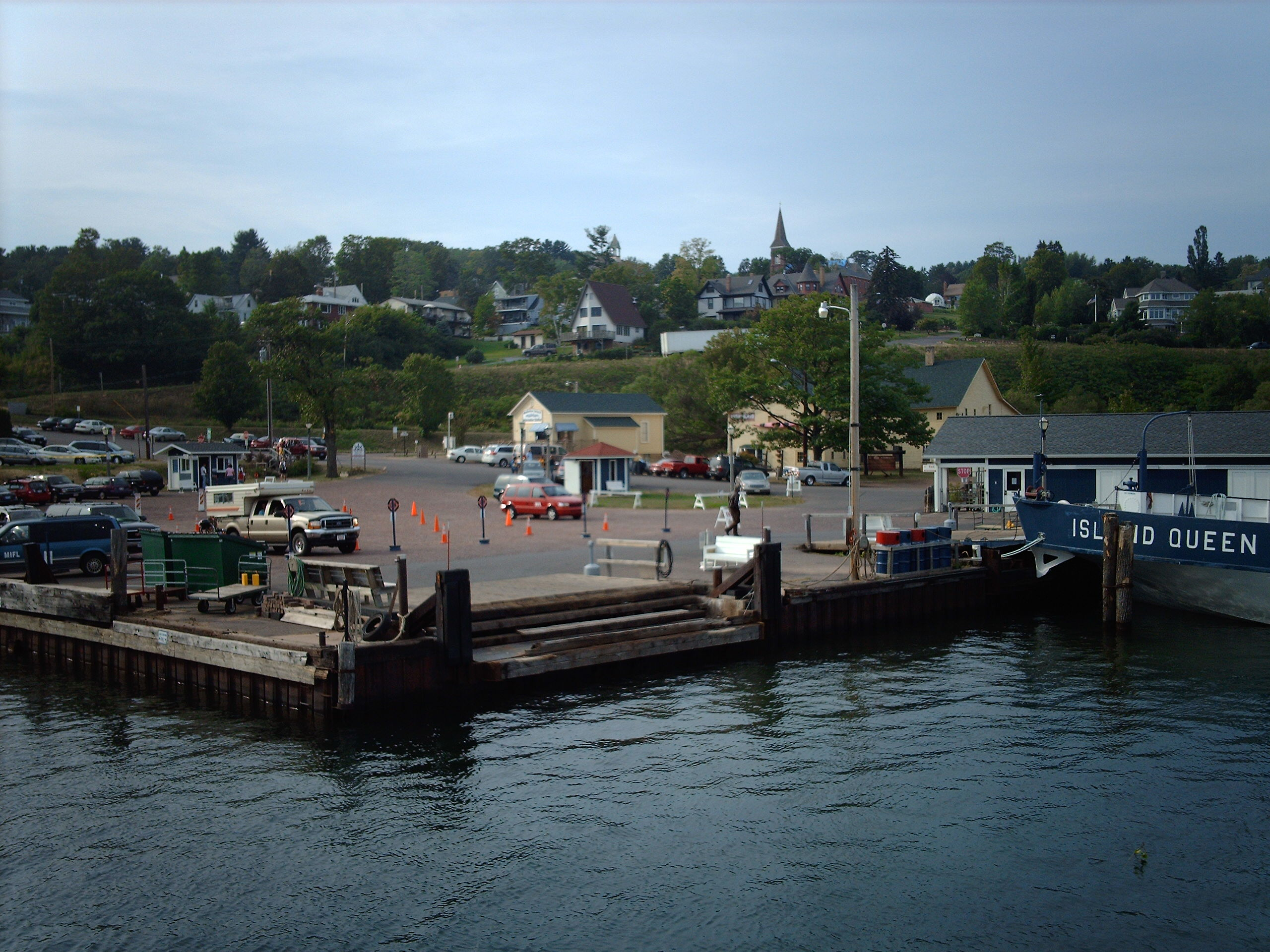 Bayfield, Wisconsin. Taken by me.